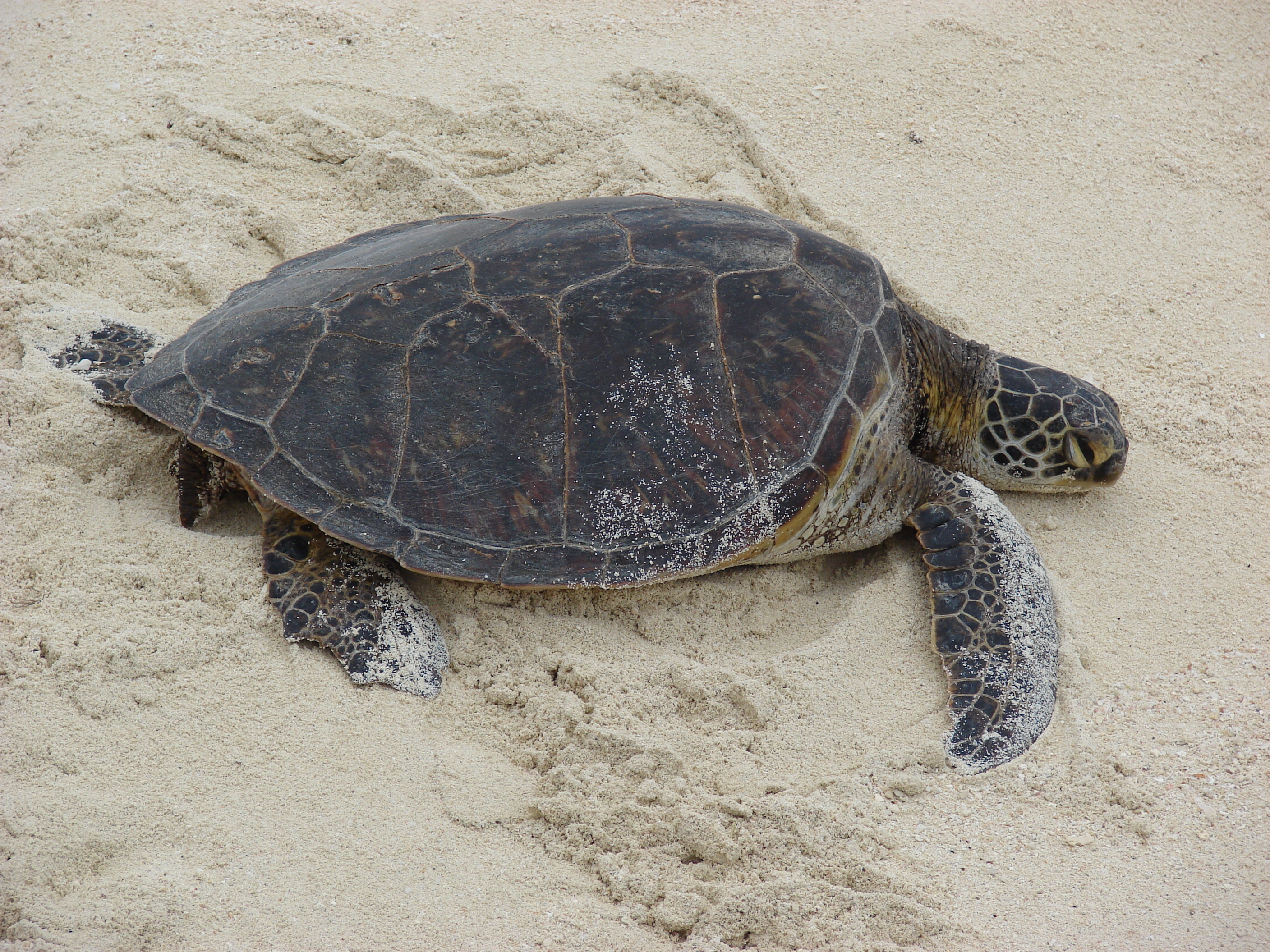 Lepturus repens habitat with Hawksbill Sea Turtle (Eretmochelys imbricata). Location: Midway Atoll, Pier Eastern Island